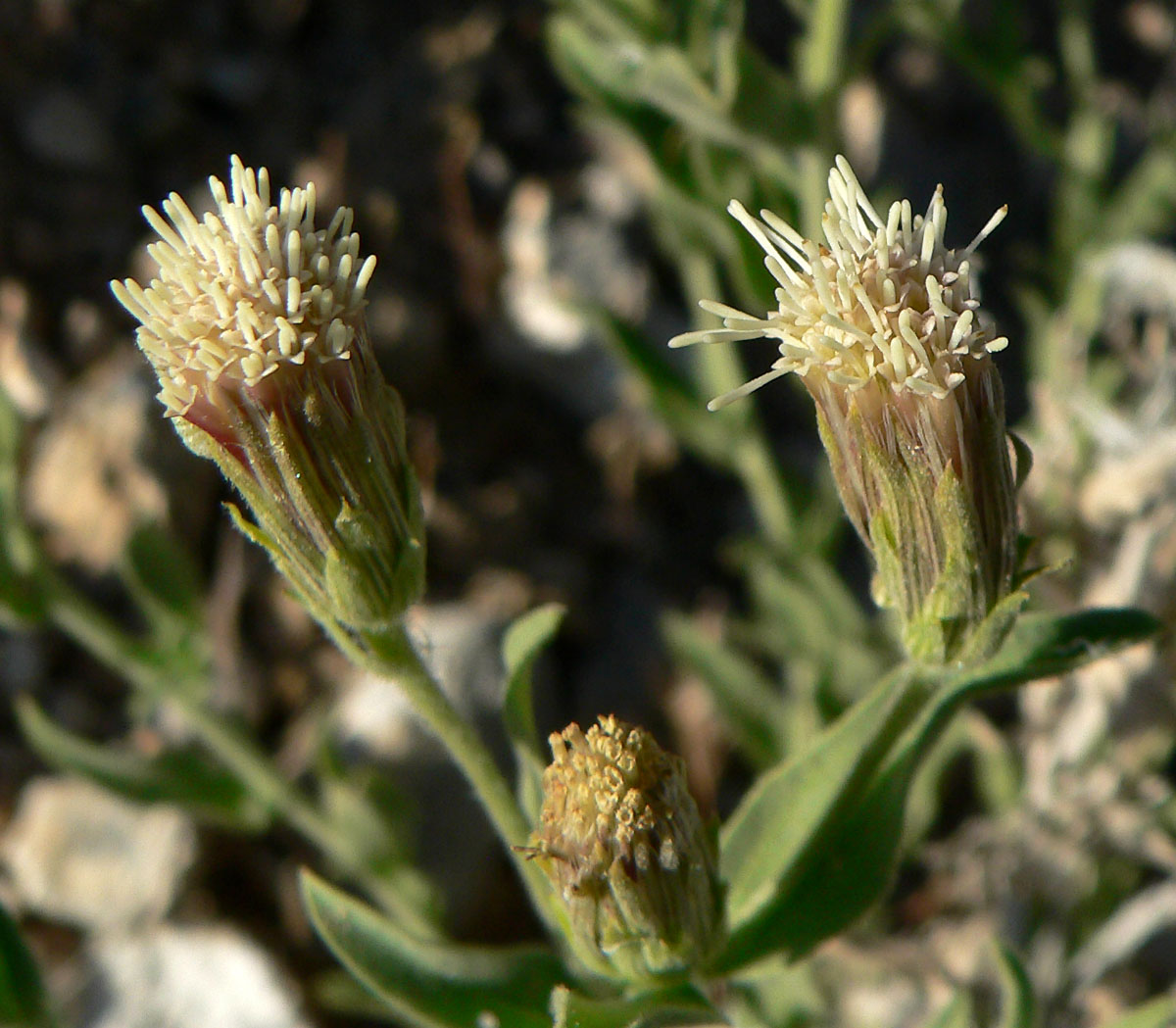 Brickellia oblongifolia var. linifolia in Kyle Canyon, Spring Mountains, southern Nevada